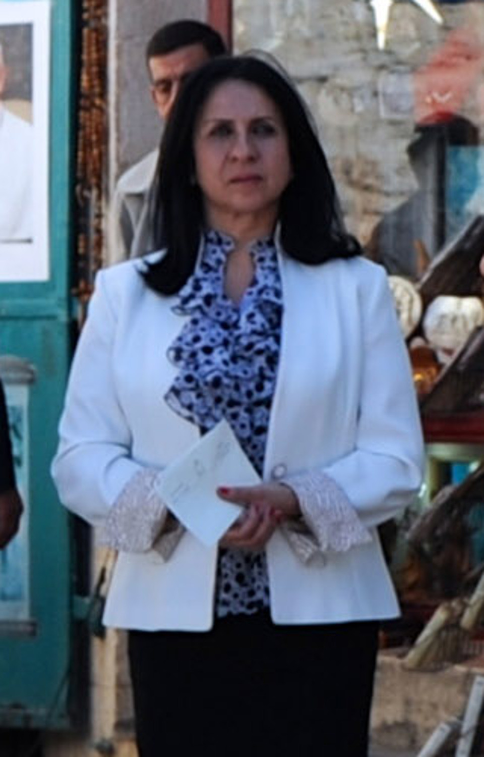 Portrait of Vera Baboun, mayor of Bethlehem, during the visit of John Kerry on november 6th 2013.